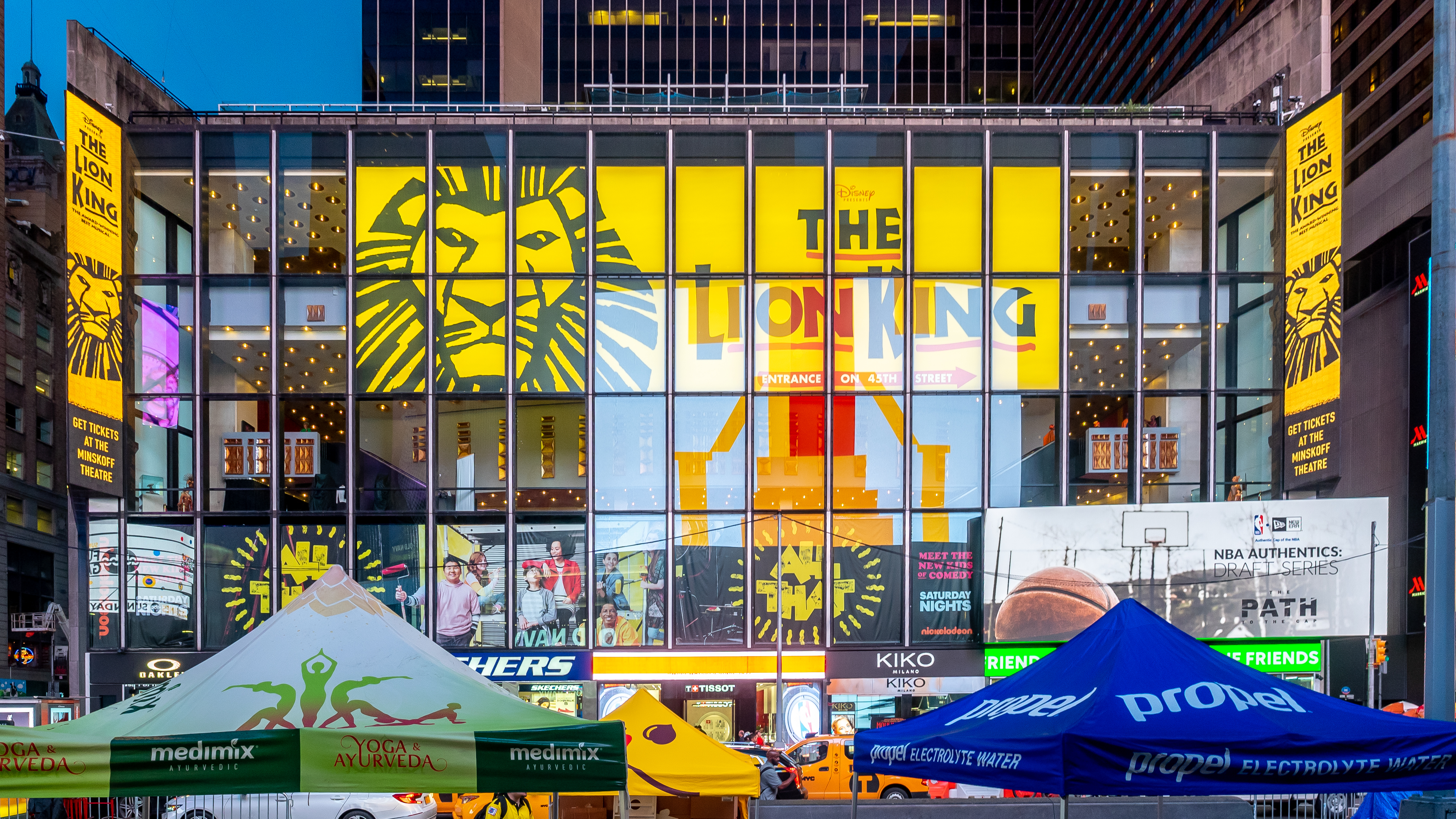 Midtown, NYC